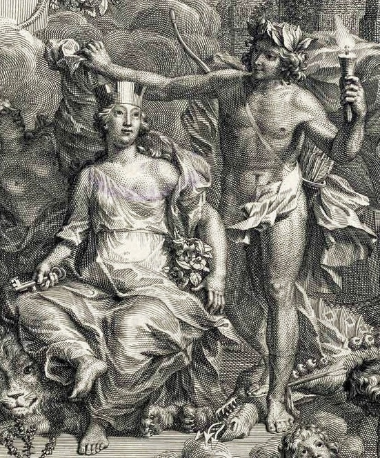 Fragment of Frontispiece by Jan Wandelaar (1690-1759) of Linnaeus, C. (1738), Hortus Cliffortianus. Mother Earth holds the keys to the garden. A young god Apollo, with the head of Linnaeus, steps forward, bringing light in his left hand and with his right hand casting aside the shroud of darkness around the goddess. (Desription summarized from Stearn, W.T., (1957), in Ray Society, Species Plantarum, A facsimile of the first edition: 46)